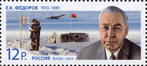 Stamp of the Russia, Yevgeny Fyodorov, 2010.